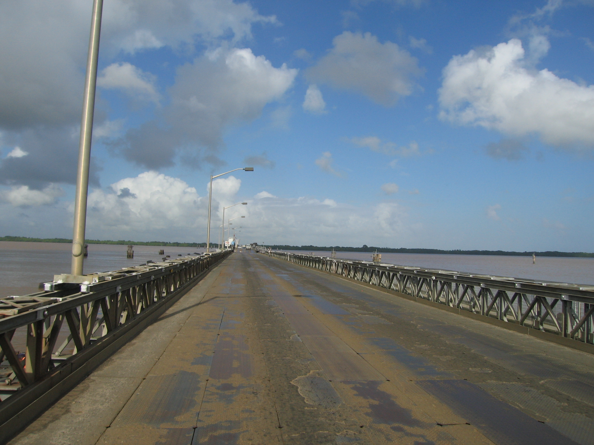 Traveling across the Demerara River on the Demerara Harbor Bridge